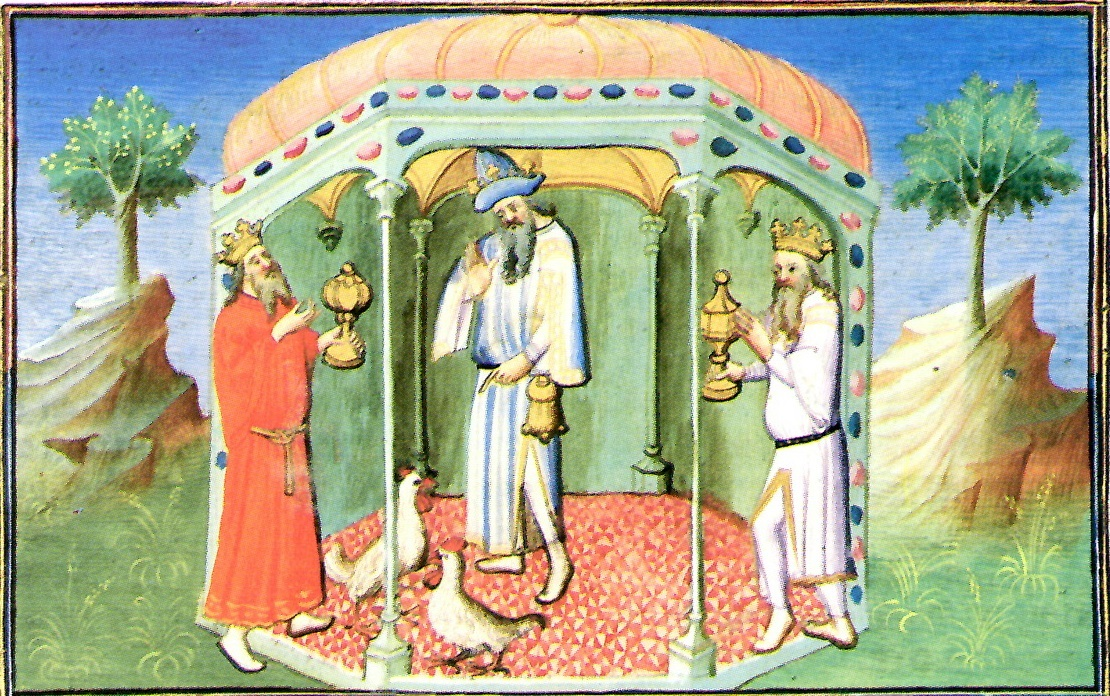 Japan in Marco Polo's travel record